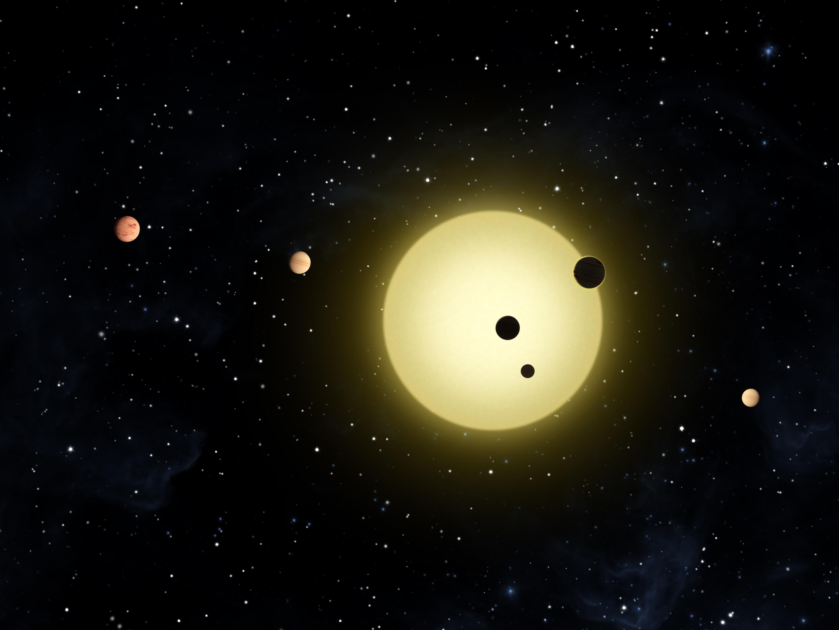 Kepler-11 is a sun-like star around which six planets orbit.